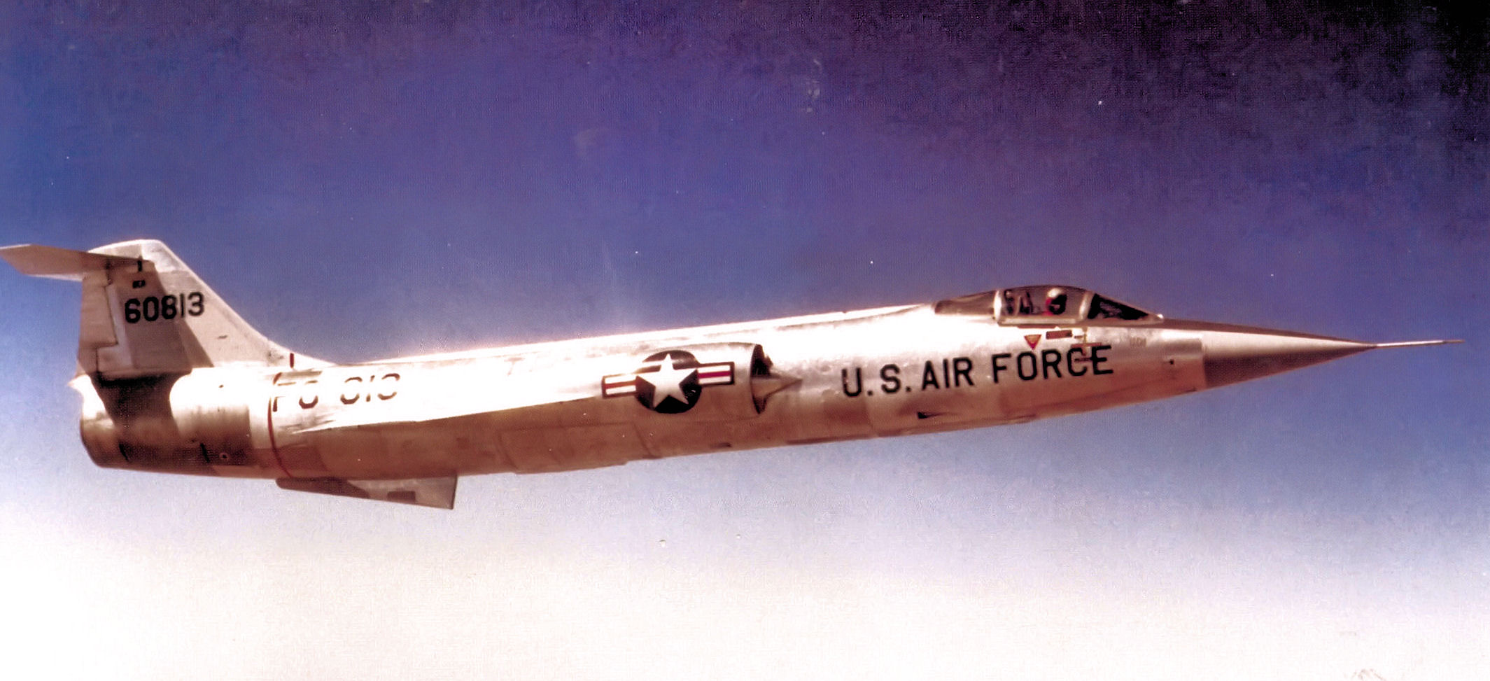 538th Fighter-Interceptor Squadron Lockheed F-104A-20-LO Starfighter 56-813 Westover AFB, Massachusetts, 23 May 1958. (151st FIS/TN AnG) collided with F-104A 56-0848 during GCA-controlled final approach to Ramstein AB, Germany and crashed Mar 19, 1962. Pilot killed.